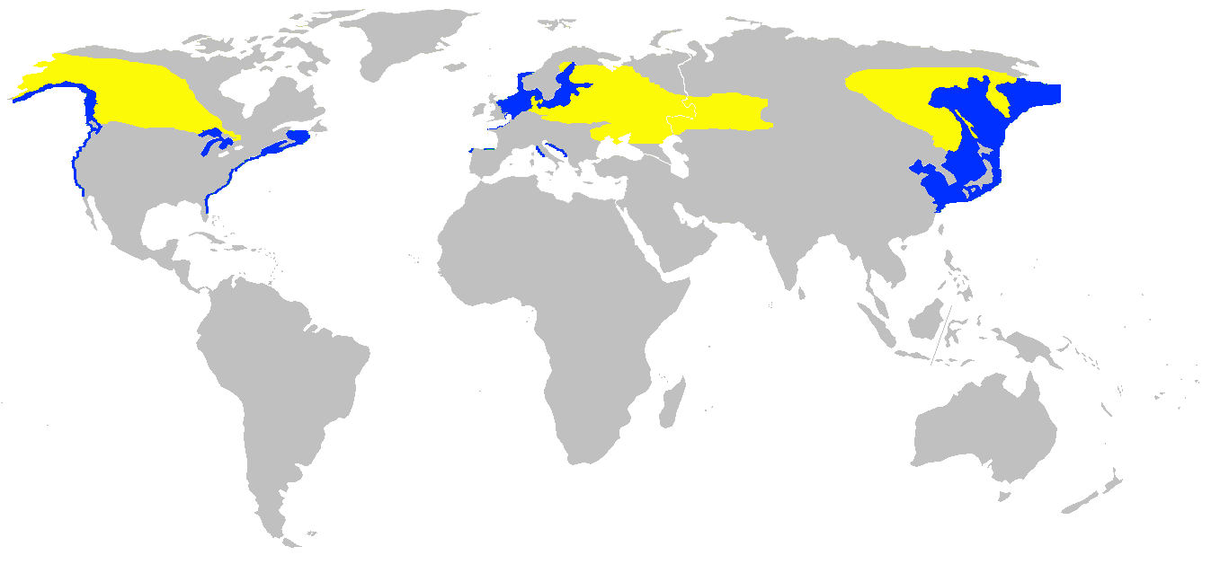 Red-necked Grebe (Podiceps grisegena) range map based on Harrison, Peter (1988) Seabirds, London: Christopher Helm, pp. 413 ISBN: 0747014108. , modified in southern Europe as per Snow, David; Perrins, Christopher M (editors) (1998) The Birds of the Western Palearctic (BWP) concise edition (2 volumes), Oxford: Oxford University Press